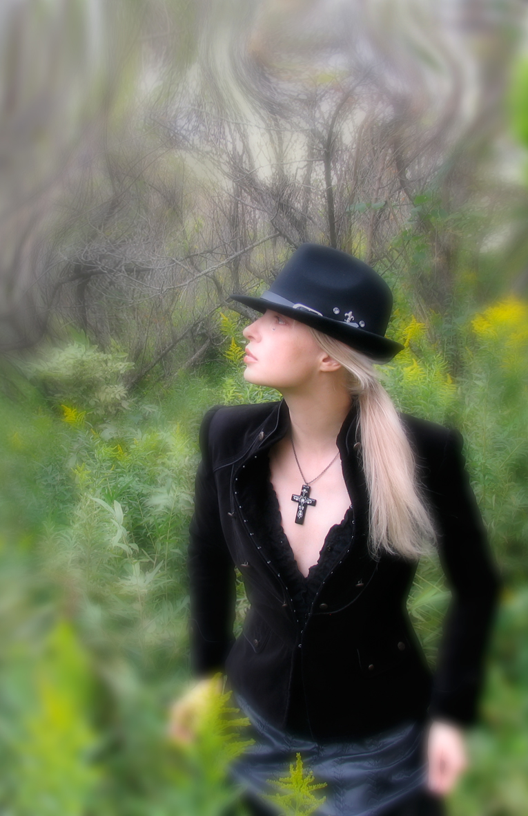 Adeyto by Adeyto Calendar (August) 2008